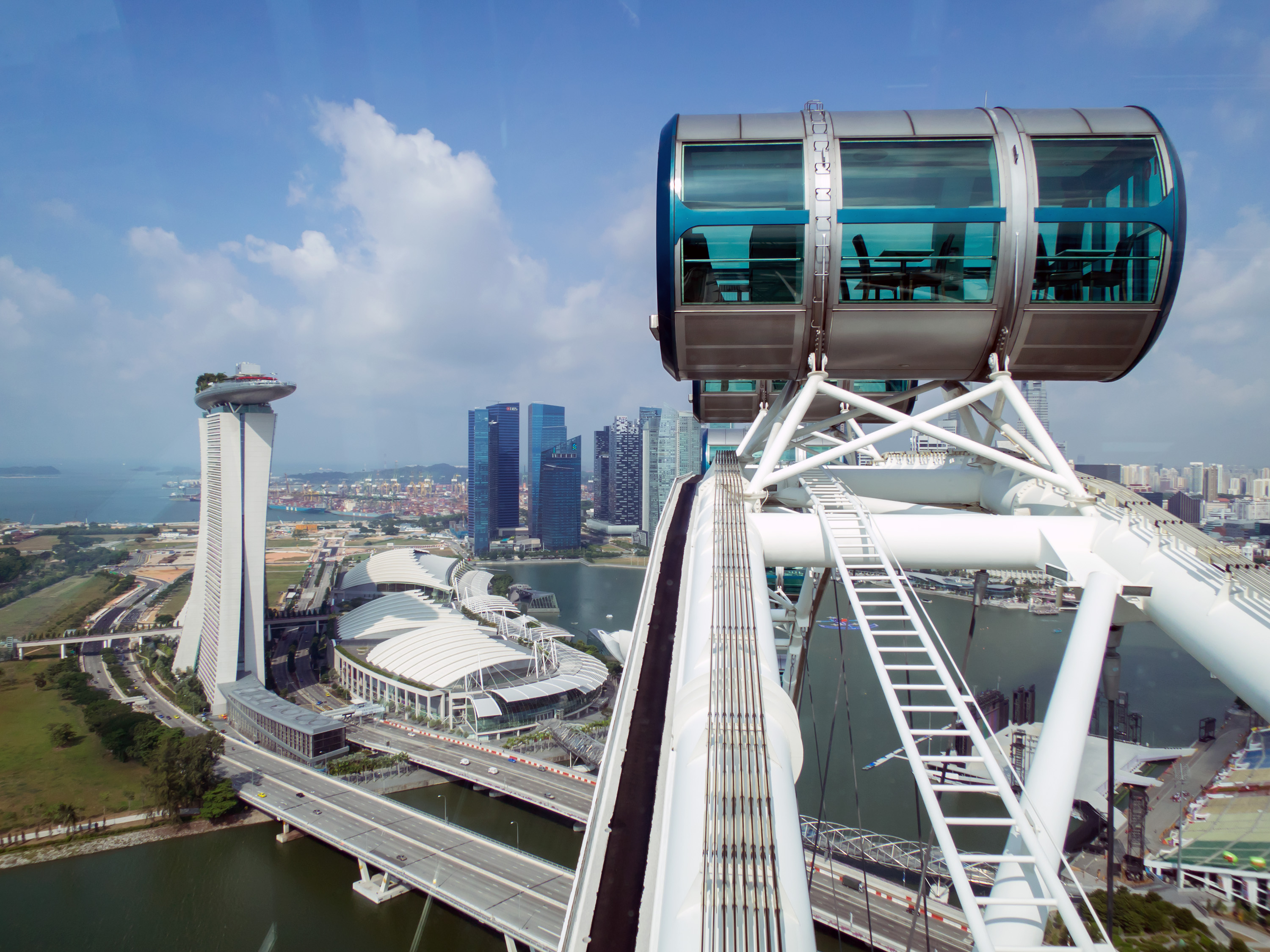 A gondola at the highest point of the Singapore Flyer.